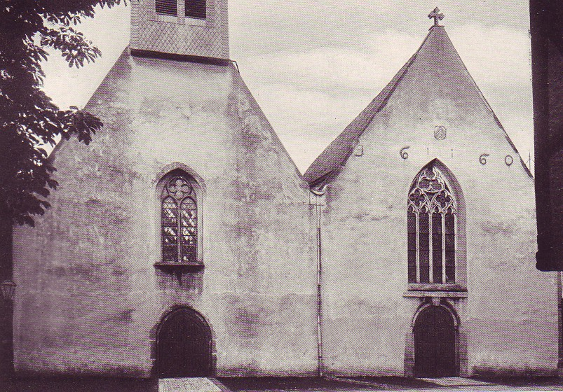 Former monastery Segenstal and Saint Stephen's church in Vlotho, Kreis Herford, Nordrhein-Westfalen.